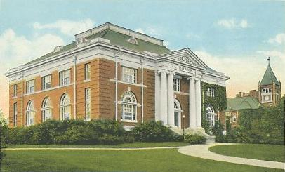 Old Library, now Hamilton Smith Hall, with Thompson Hall in the background, University of New Hampshire, Durham, NH; from a c. 1920 postcard.